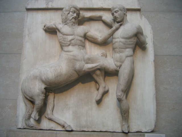 Elgin Marbles, British Museum, London : Metope Sud, 31